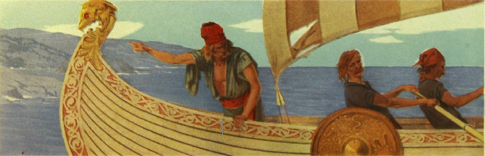 "The Norse Discoverers", the first of thirteen murals by Francis Davis Millet, painted in 1909. The series of murals is in the rotunda of the Cleveland Trust Company Building in Cleveland, Ohio, United States.